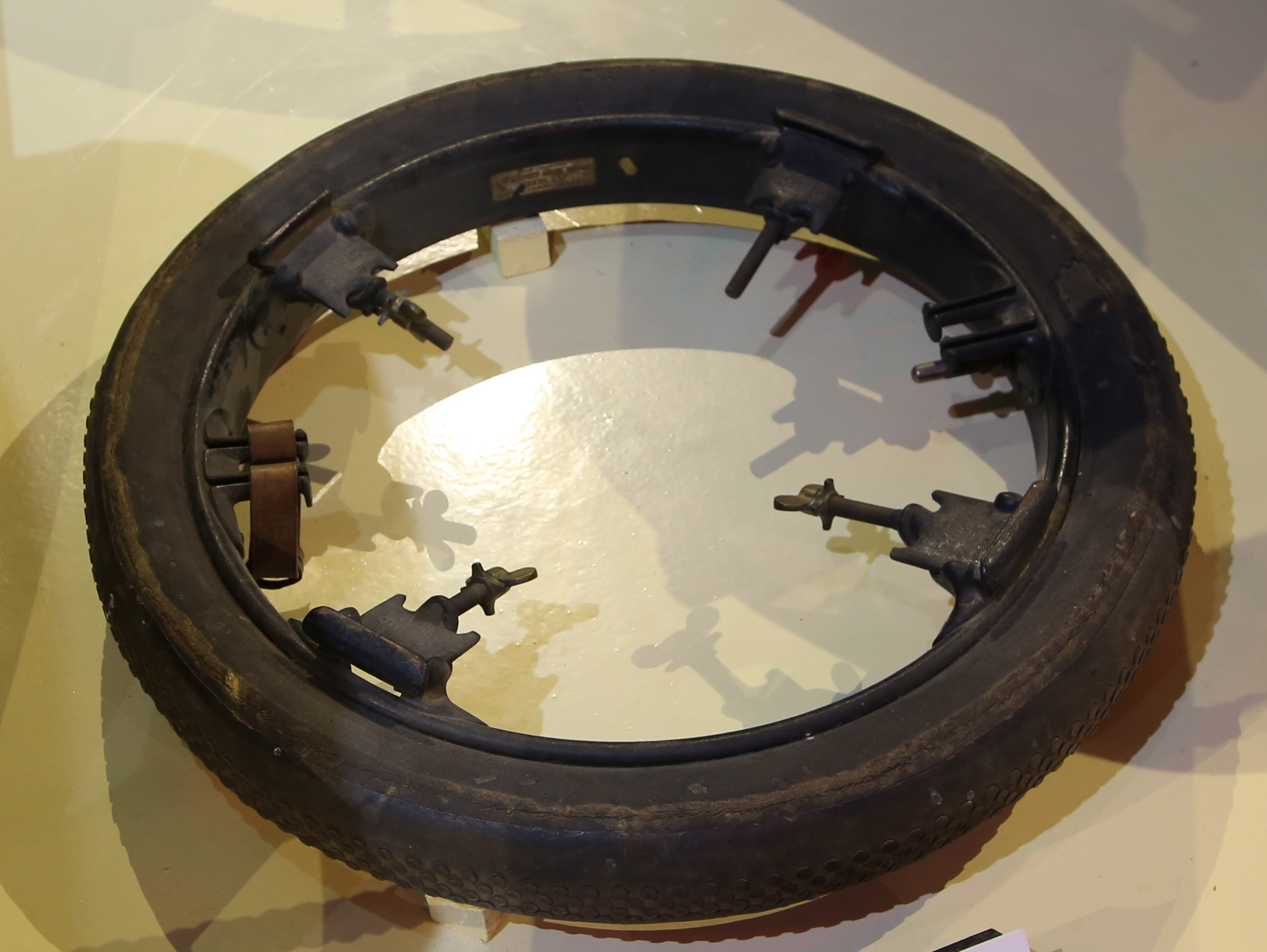 Photo of a stepney rim an early approach to providing a car with a spare tire